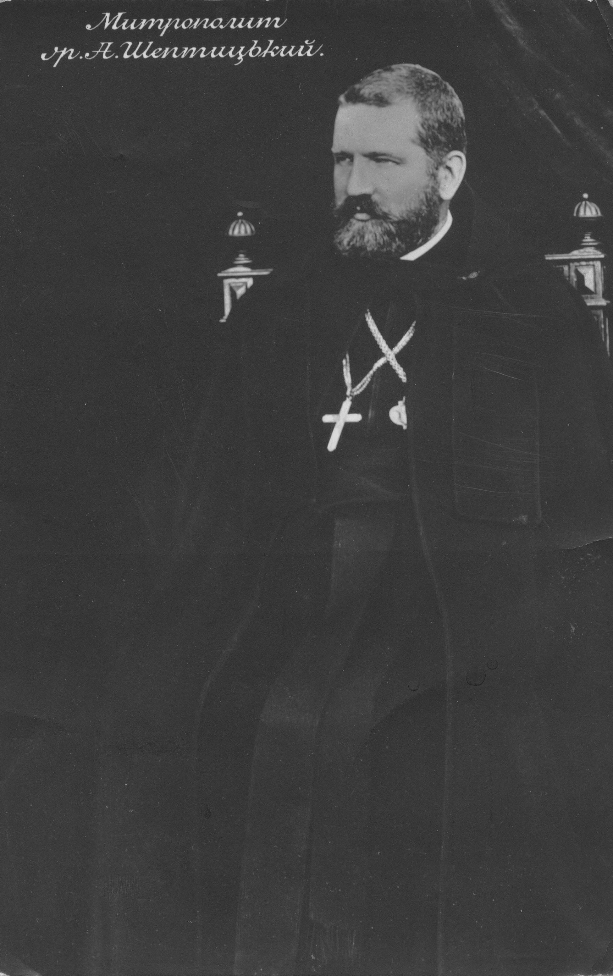 Metropolitan Andrey Sheptytsky (1865-1944)